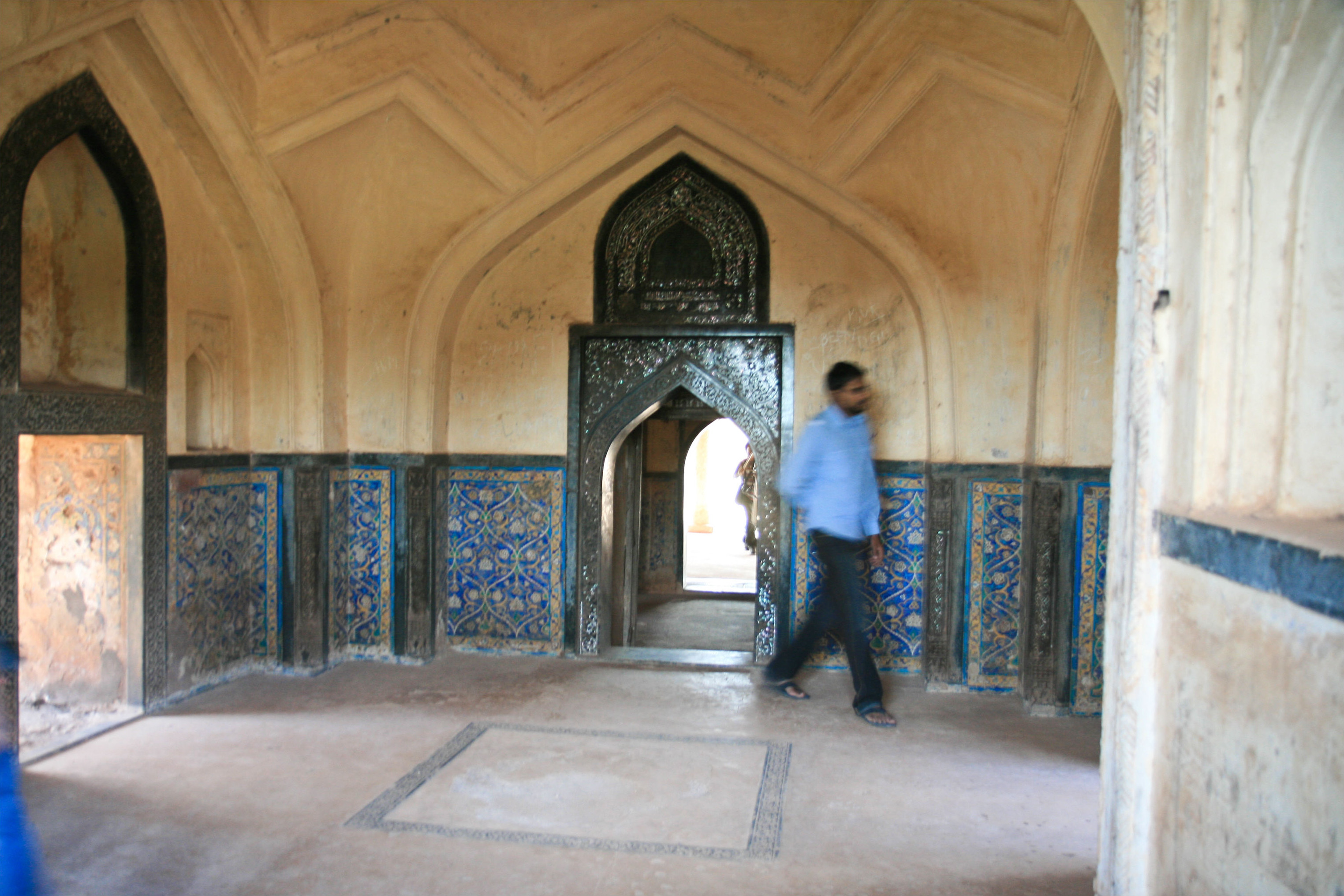 Very well preserved hall which has the walls decorated with mosaics done with mother of pearl.Removed watermark: Madhavi Kuram Photography